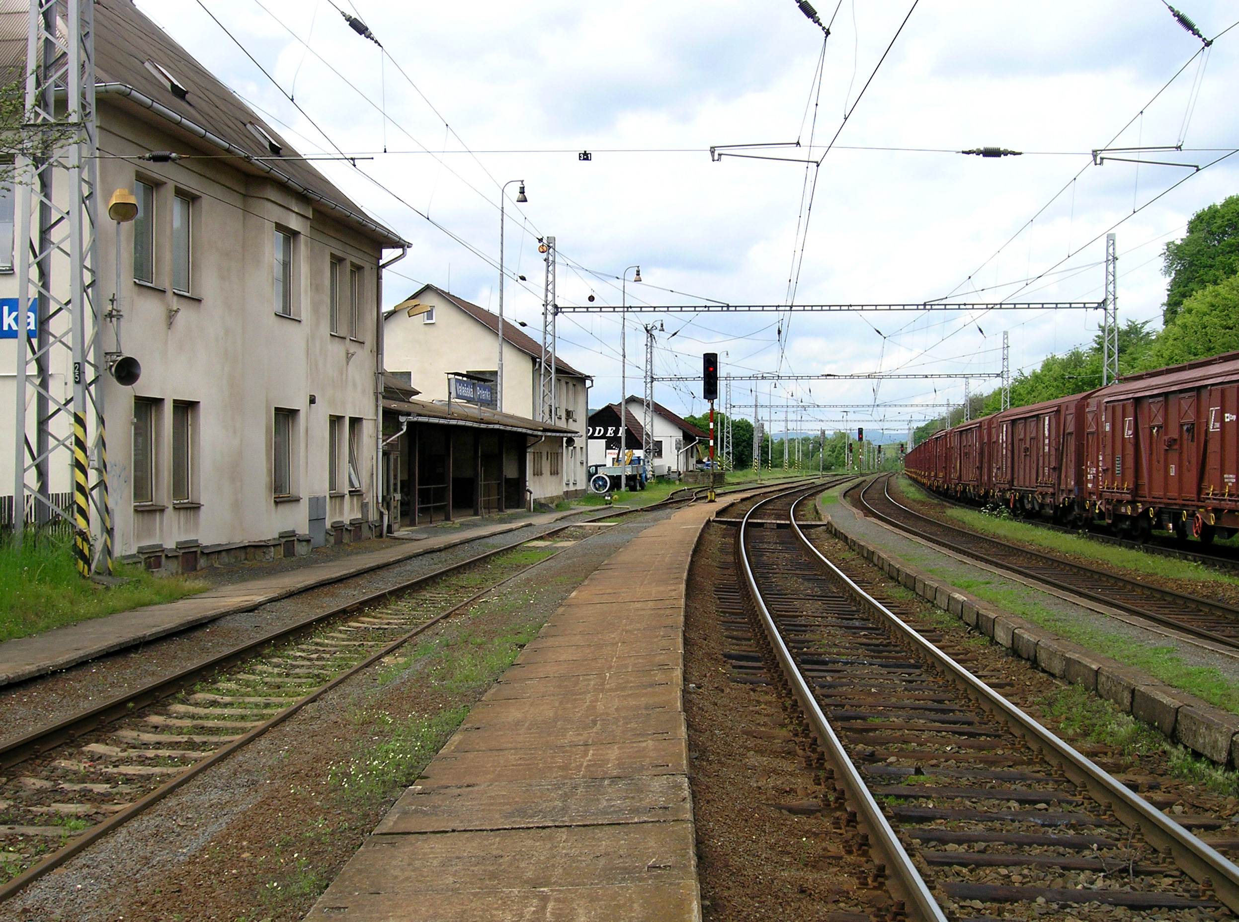 Railway station in Valašská Polanka, Czech Republic